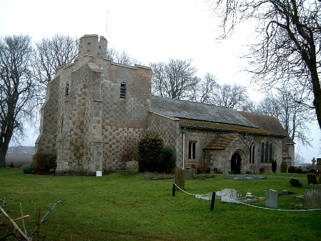 All Saints, Chalgrave : Chequered Stonework. A three-quarters shot of this attractive church showing the appealing chequered stone work, the solid little tower and interesting cylindrical turret. This church looks to be very well kept. More information about Chalgrave and All Saints here